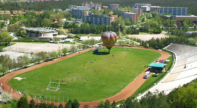 Part of Middle East Technical University campus: METU Stadium, dormitories in the background. Photograph taken by Atilim Gunes Baydin, May 7, 2003.